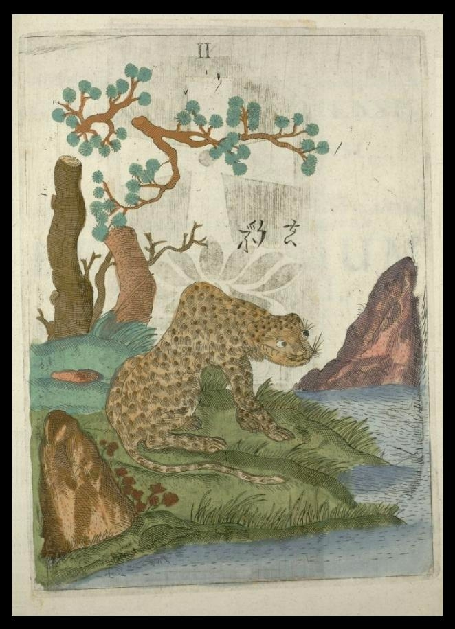 One of the earliest natural history books about China. Jesuit Missionary author. (obviously includes some non-Chinese {and non-floral} species)